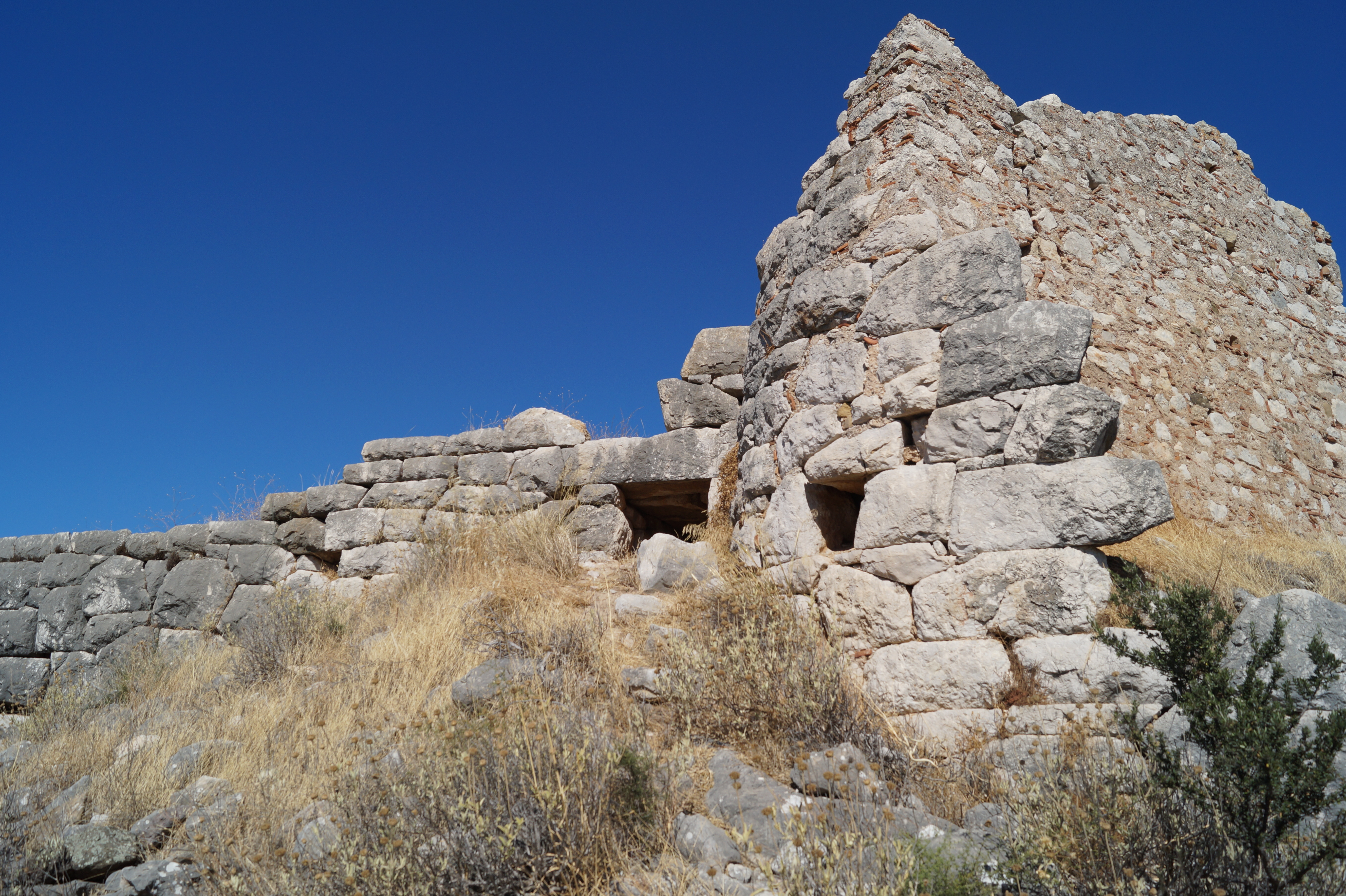 Greece, Argolis, Acropolis of Kazarma: Rear gate.